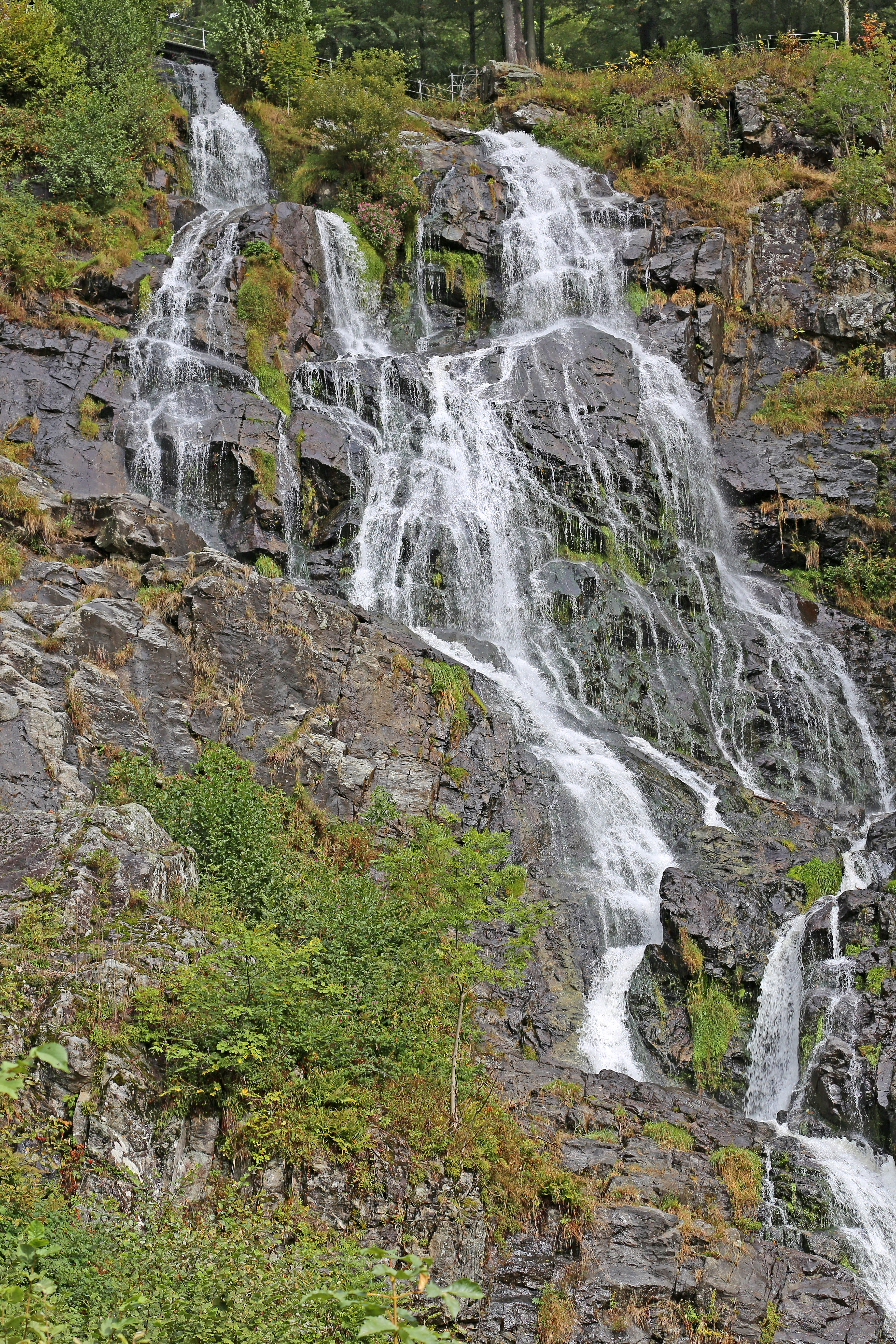 Main case of Todtnauer waterfalls. The source areas of the mountain streams of the falls are at 1,380 meters. The falling edge lies at 935 meters and the impact zone at 838 meters (total drop height 97 meters). The main case (the lowest level) has a drop height of about 60 meters.